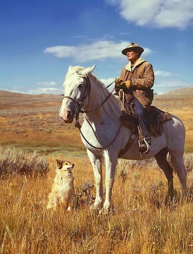 Shepherd with his horse and dog on Gravelly Range, Madison County, Montana, August 1942. Reproduction from color slide. Photographed by Russell Lee.